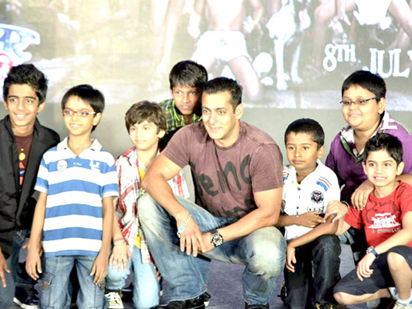 Chillar Party kids with Salman Khan